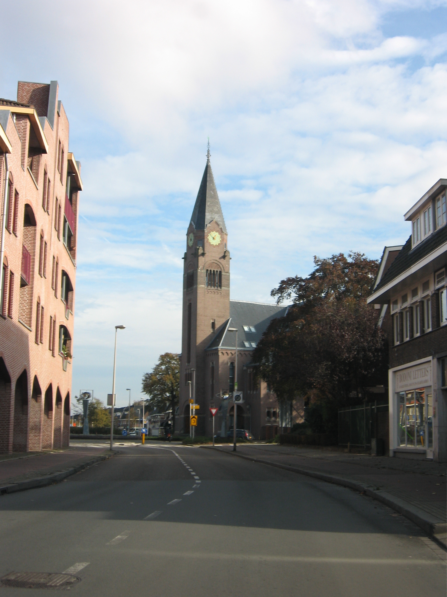 Vredekerk, Bussum